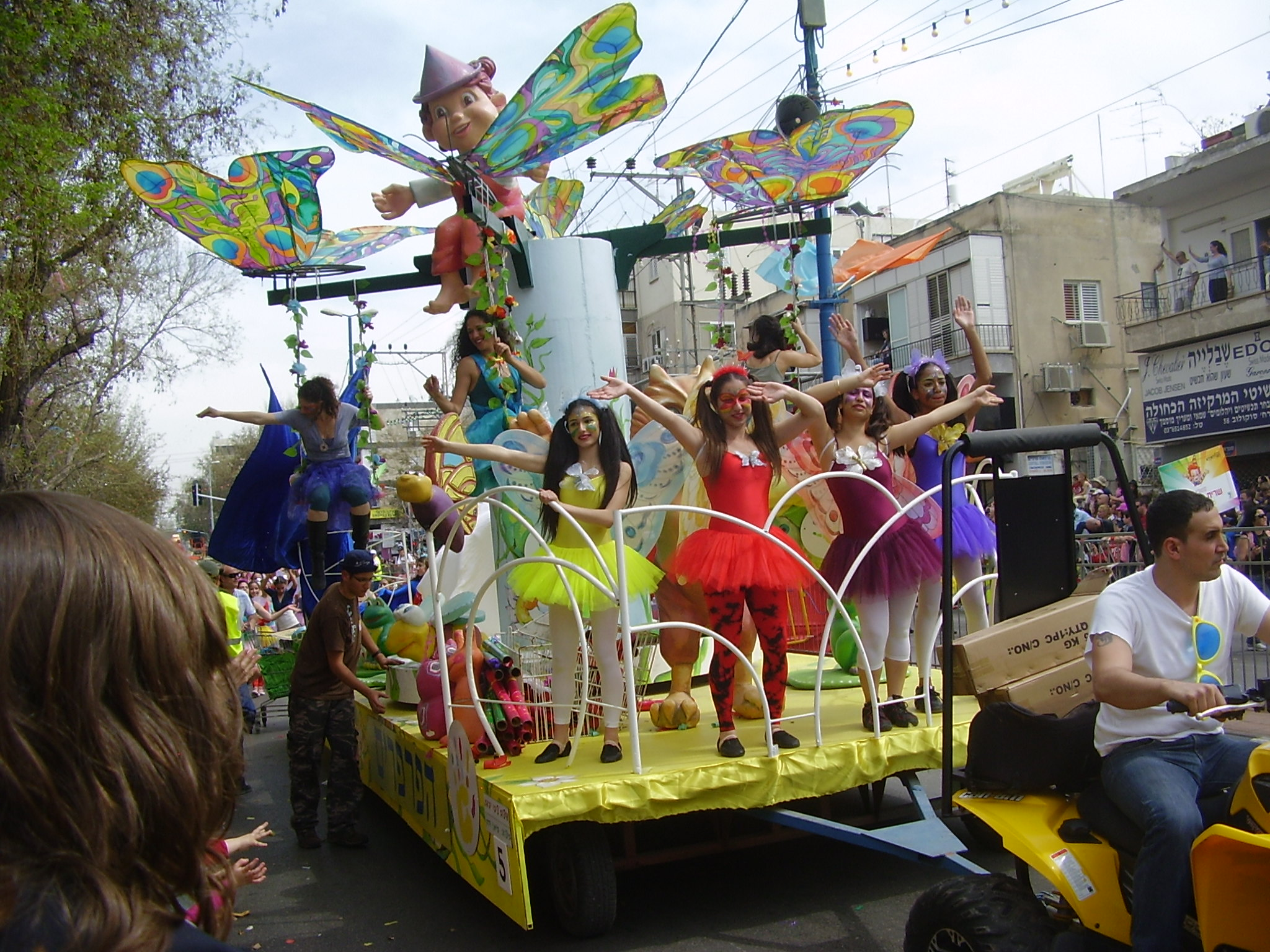 purim festival in holon 2011